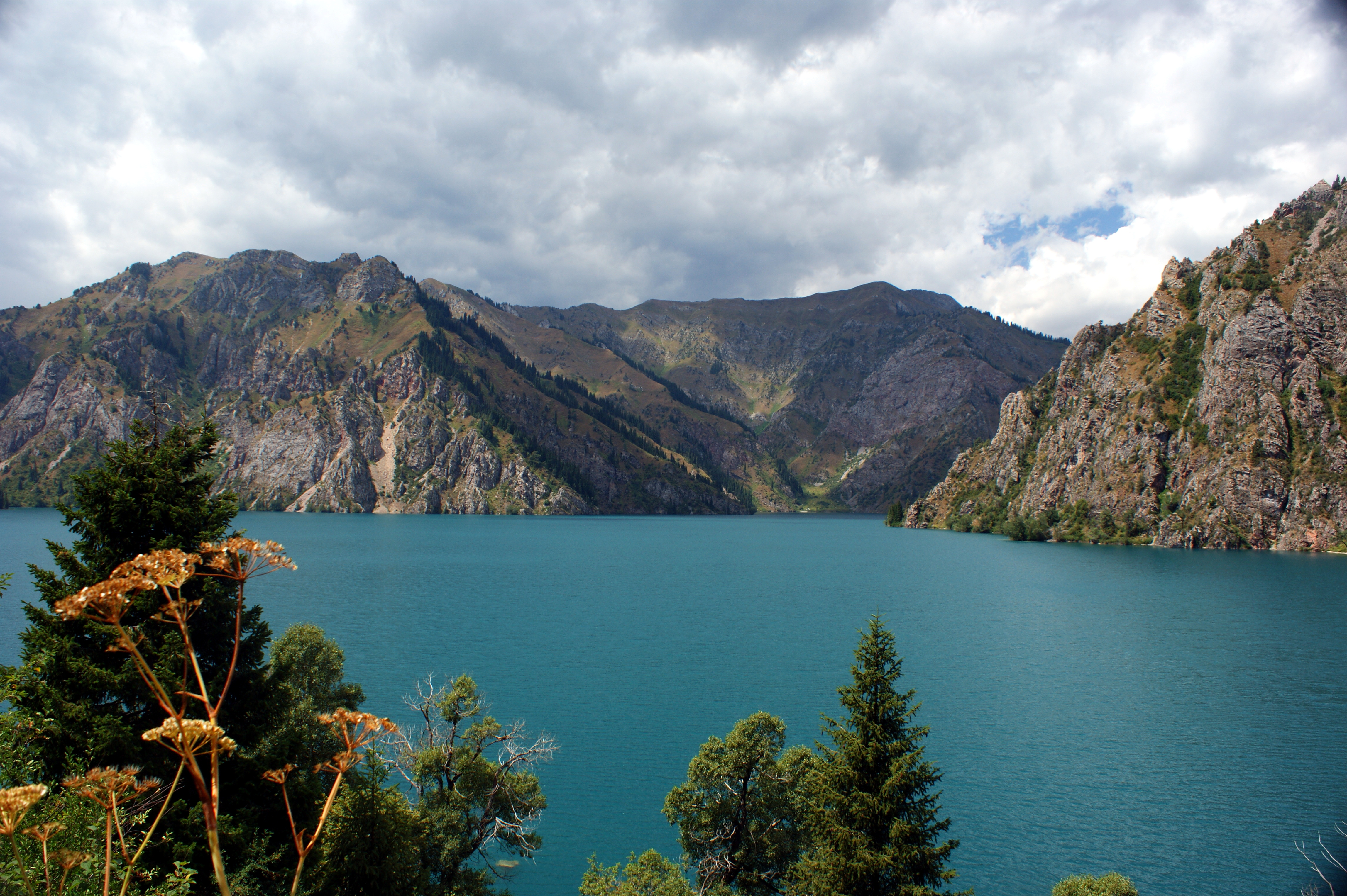 View of the Sary Chelek Lake in Kyrgystan (see geotag)